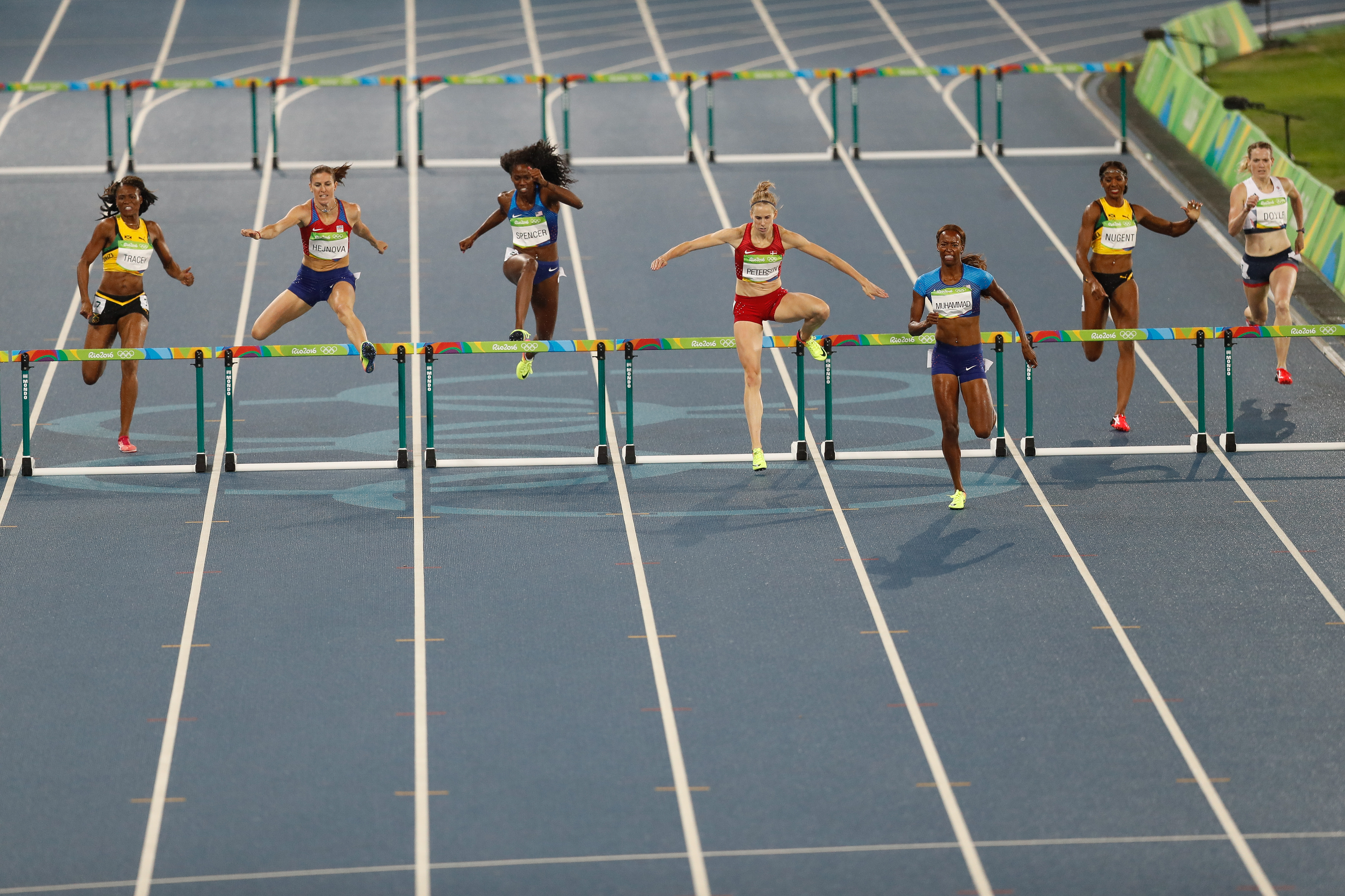 Rio de Janeiro - Dalilah Muhammad, dos Estados Unidos, vence os 400m com barreiras nos Jogos Rio 2016, no Estádio Olímpico. (Fernando Frazão/Agência Brasil)